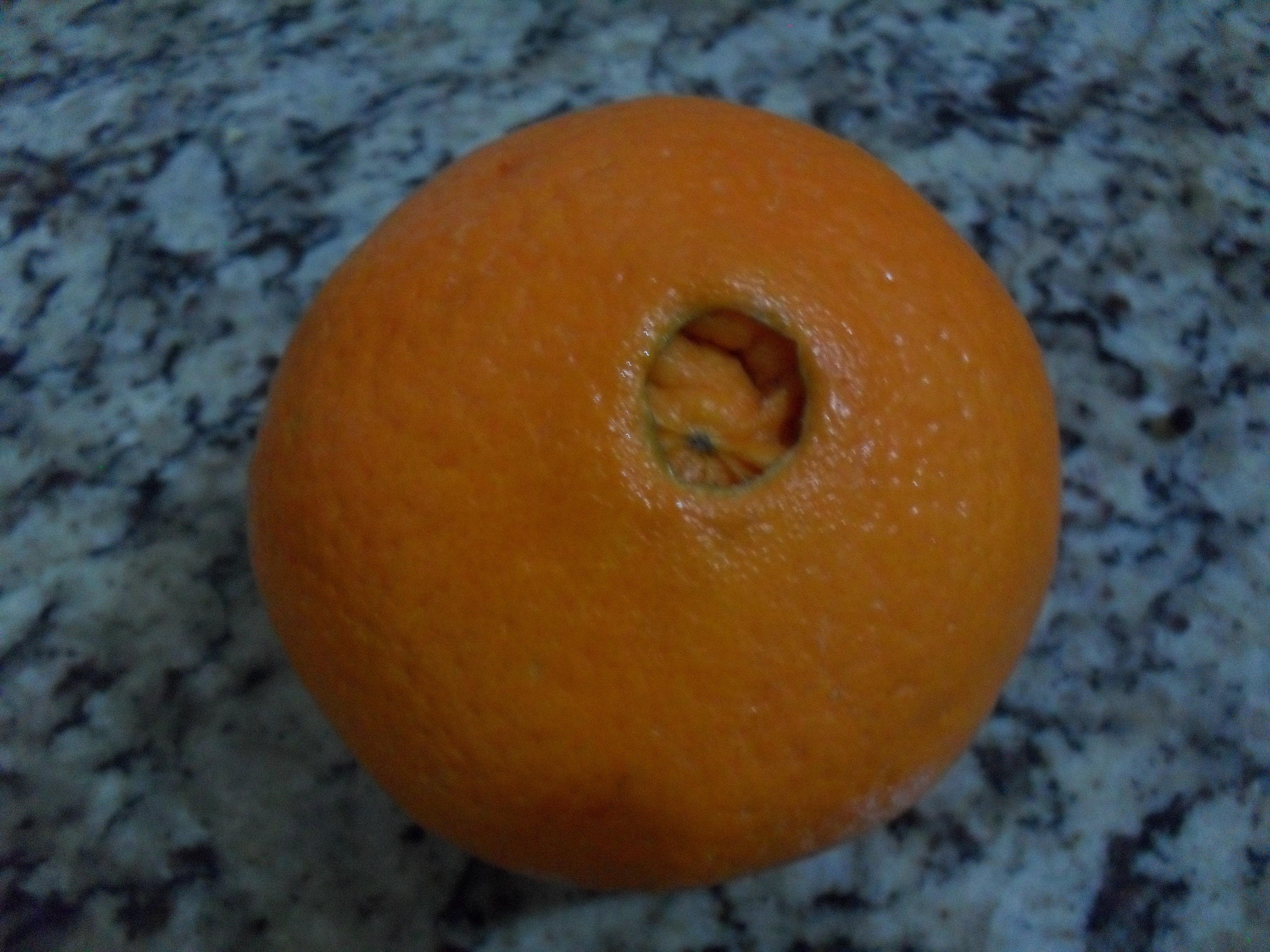 The "navel" of the navel orange.